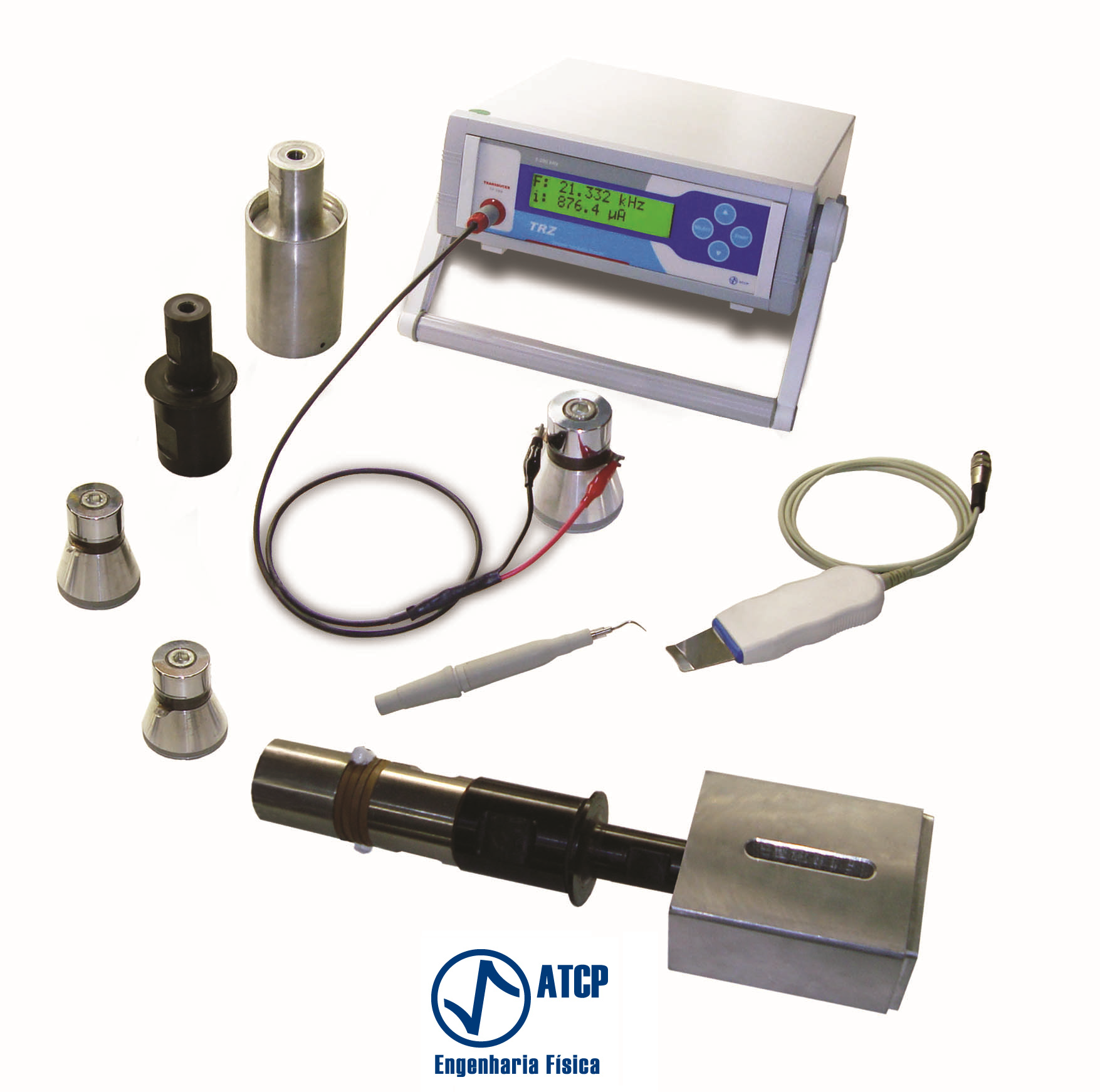 Example of an horn analyzer (TRZ) in together with digital components ultrasonic power.